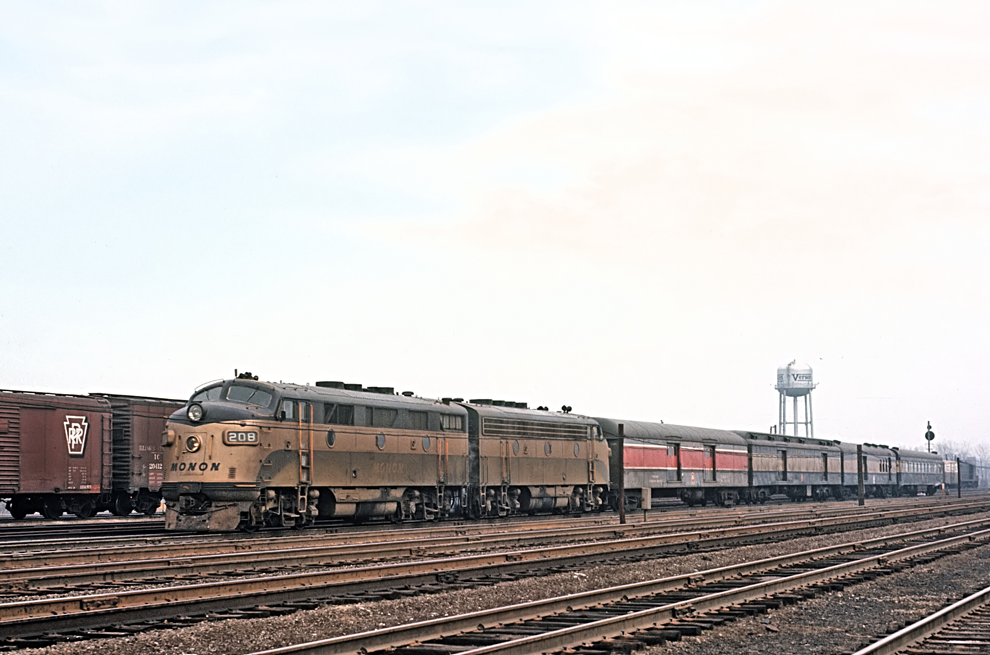 Monon F3A No. 208 with northbound Train 6, the Thoroughbred, in South Chicago, Illinois.